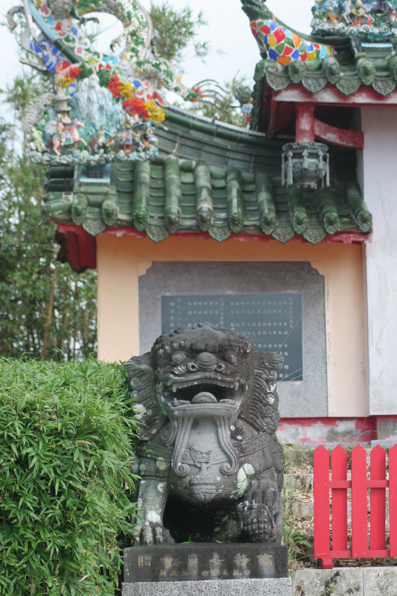 Chinese people were going to California in 1852. The trouble in the ship made them break journey. They stayed in Ishigaki unwillingly. This tomb was built for them.